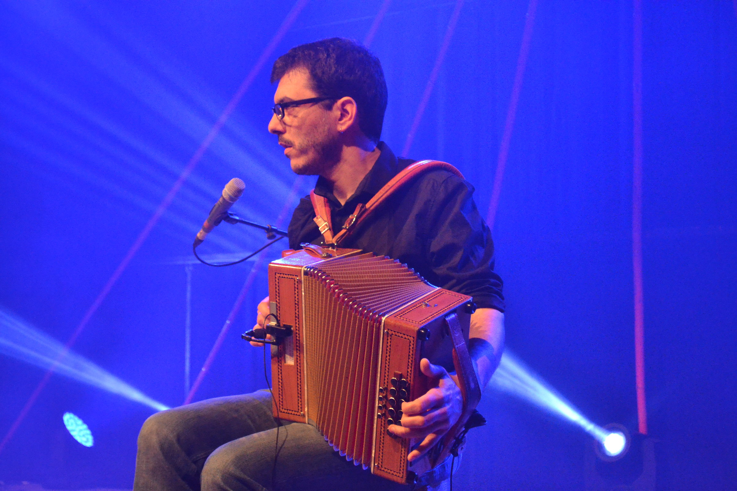 Brotto-Lopez during Primtemps de l'arribèra on 2015.